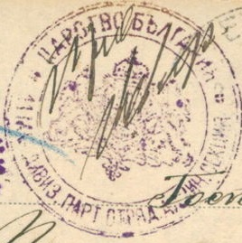 11th Division Guerilla Detachment's Seal